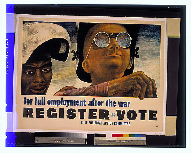 For full employment after the war, register, vote, poster by Ben Shahn, 1944, published by the US Department of War Information